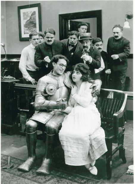 Harold Lloyd and Bebe Daniels in the movie Ask Father (1919).